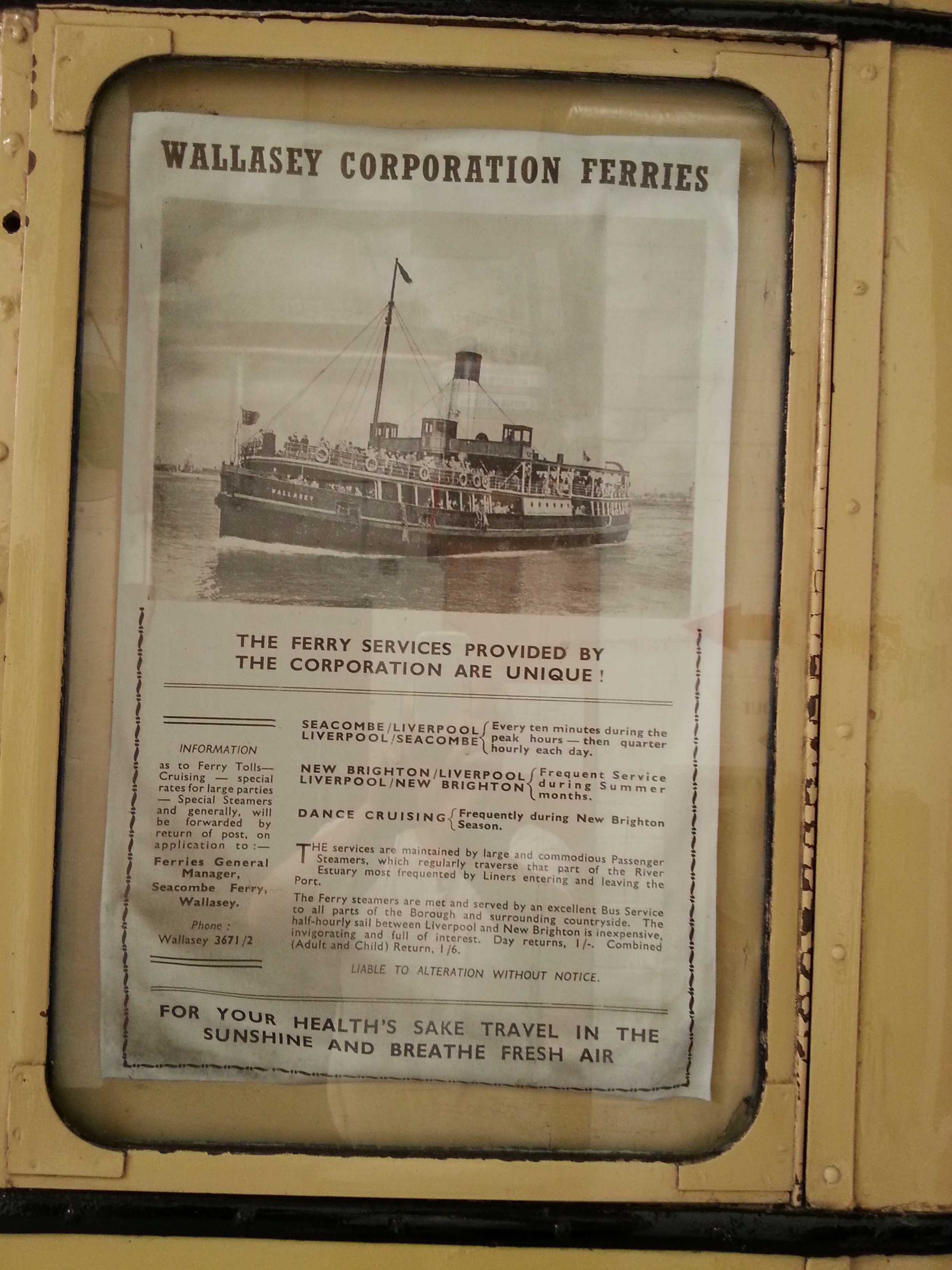 Wallasey Corporation Ferries advert in the Wirral Transport Museum